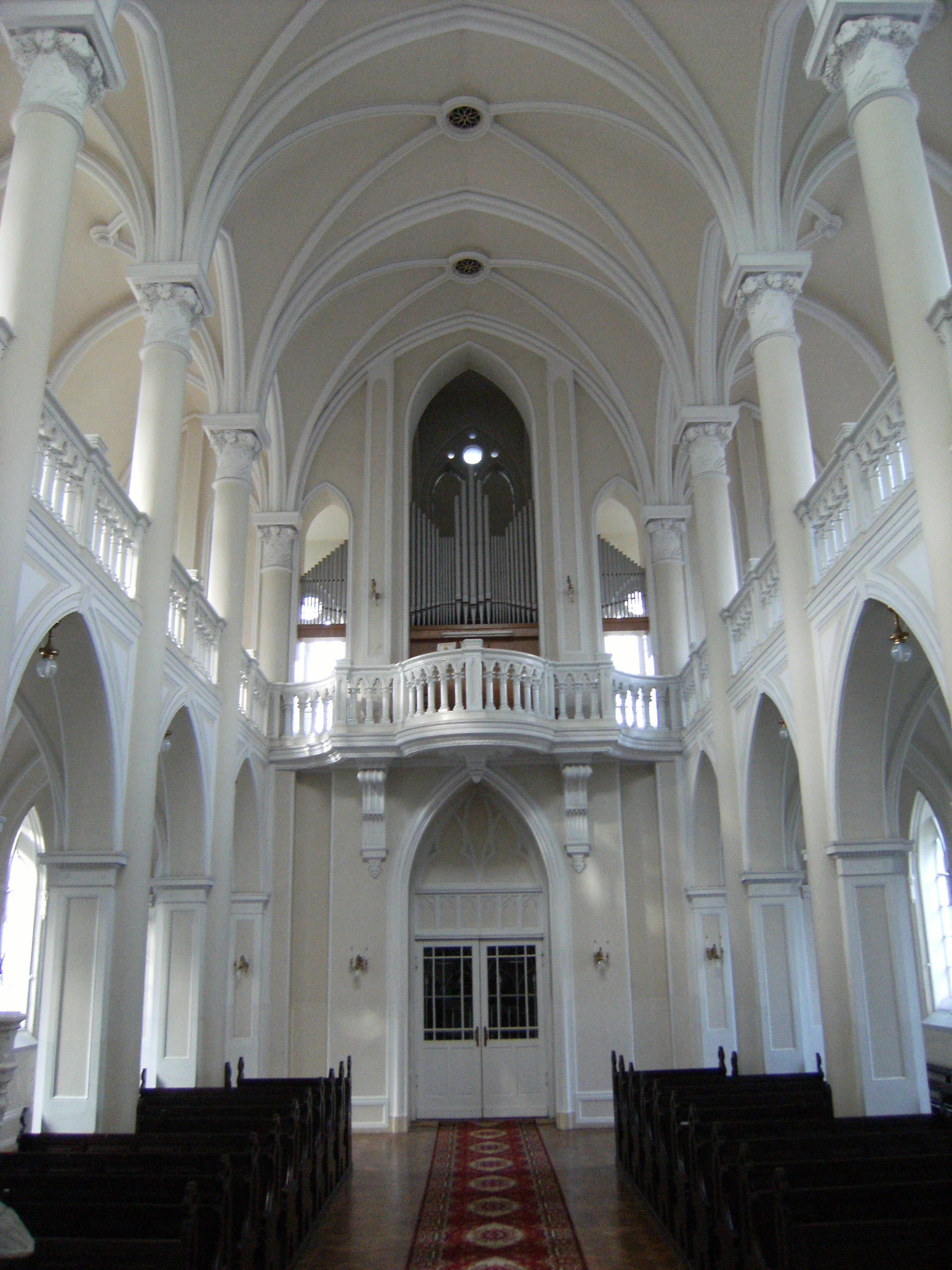 Old Catholic Mariavite Temple of Mercy and Charity in Plock